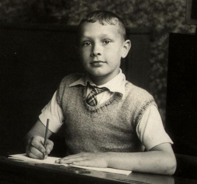 prive foto. Gambar:Hans Ras in 1935.jpg Image:Hans Ras in 1935.jpg